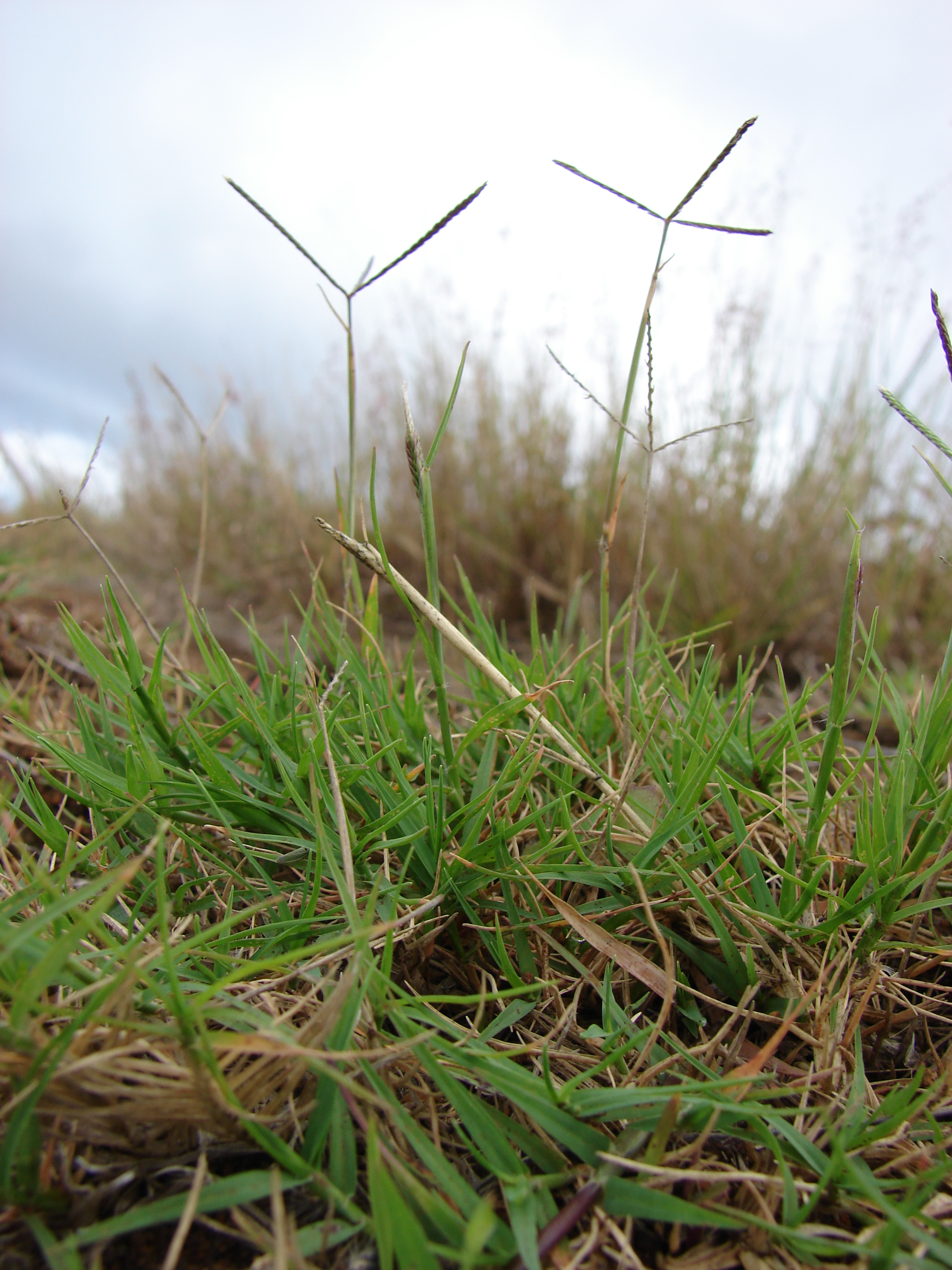 Cynodon dactylon (habit with seedheads). Location: Kahoolawe, Puu Moaulanui